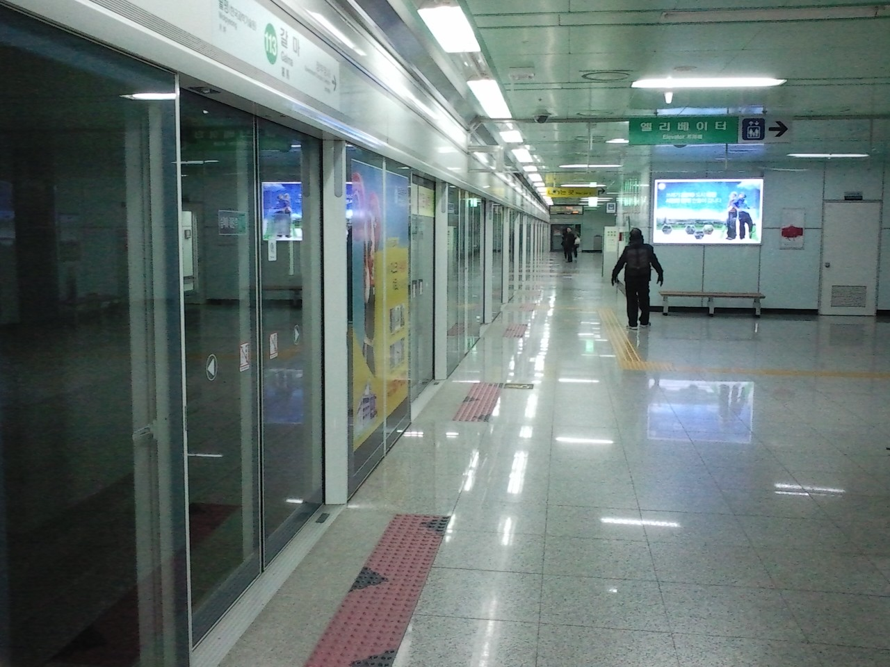 Galma stn